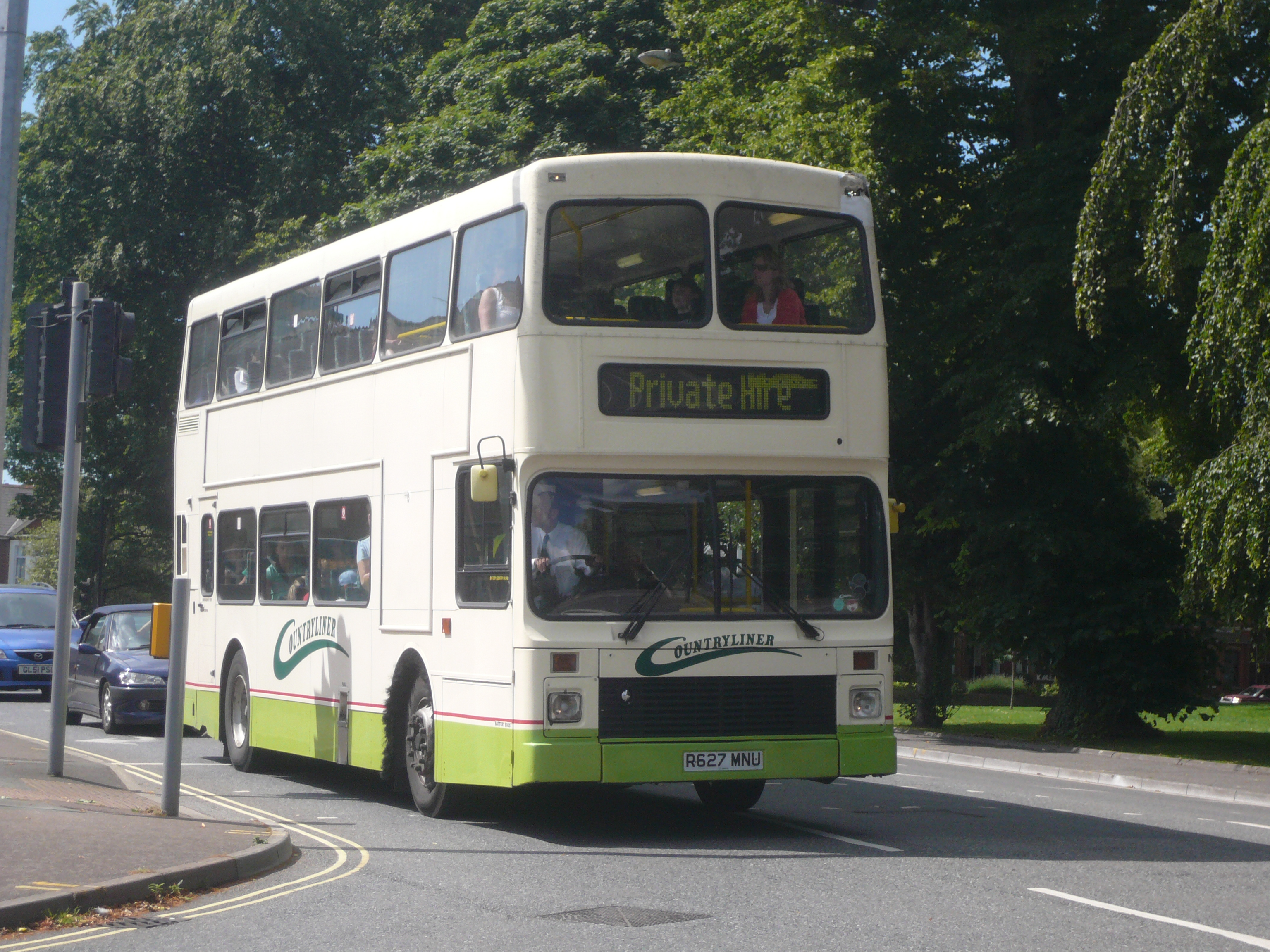 Countryliner NV627 (R627 MNU), a Volvo Olympian/Northern Counties Palatine, in Church Litten, Newport, Isle of Wight operating a shuttle service between sports venues for the Island Games 2011, which were taking place at the time.